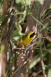 Altamira Yellowthroat Geothlypis flavovelata, male, Tamaulipas, Mexico.